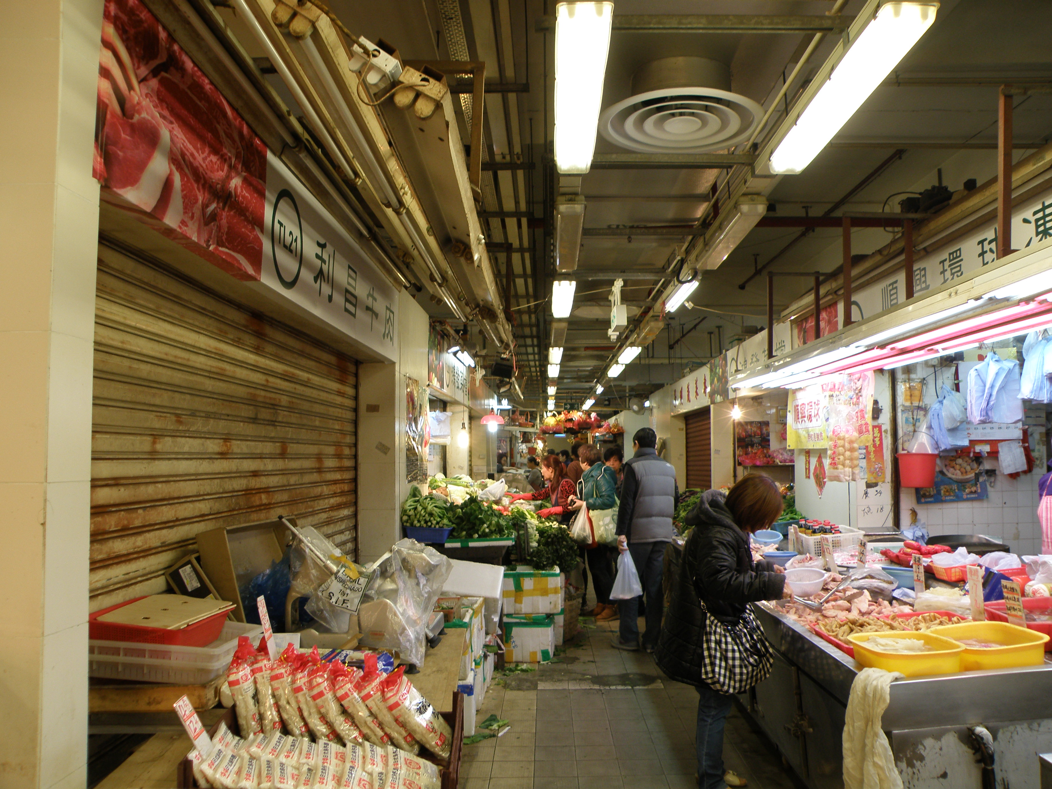 Tsui Lam Market in Tseung Kwan O, Hong Kong.